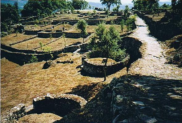 Houses in Citânia de Briteiros